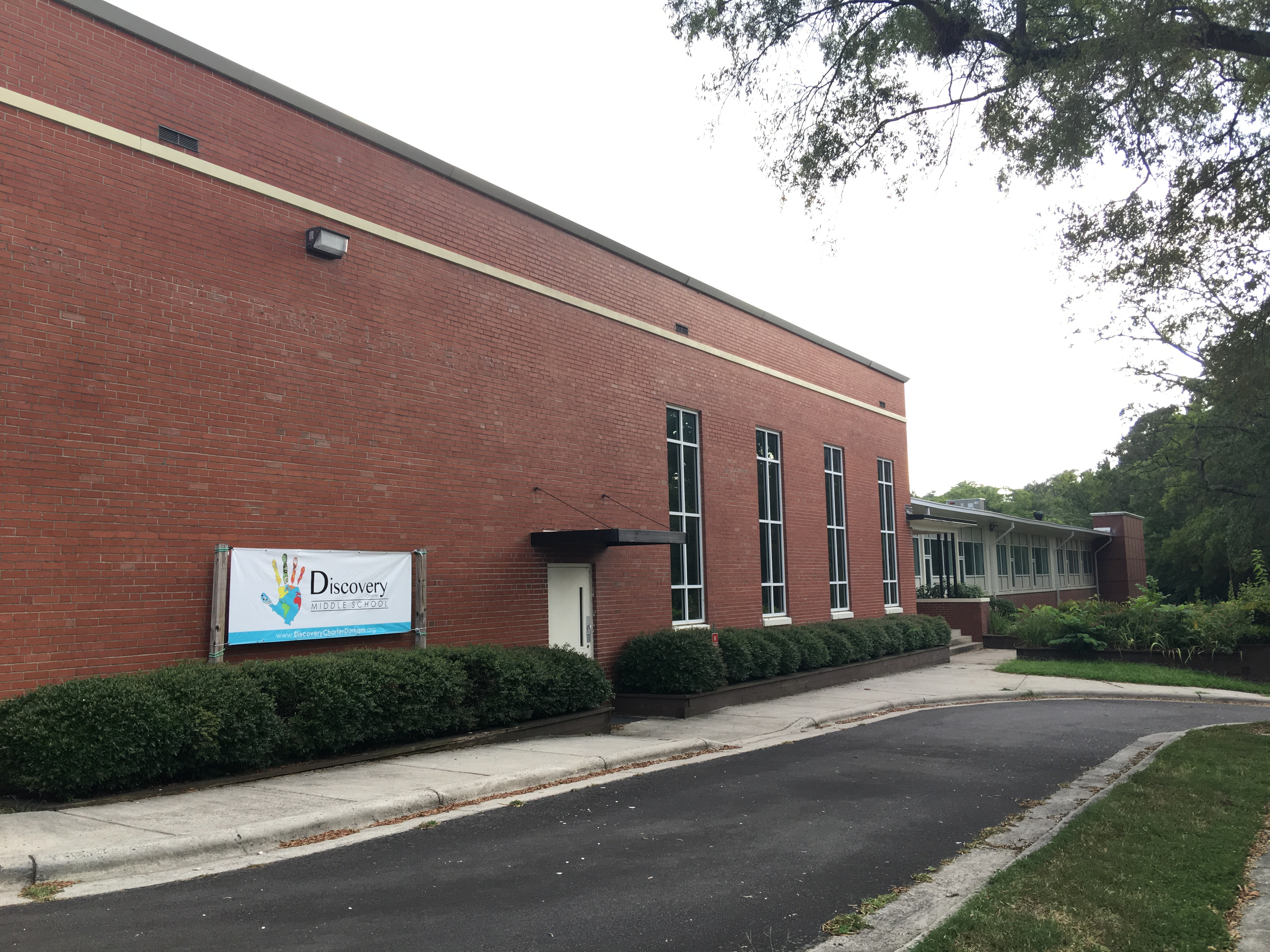 The former St. James Family Alice Center in Walltown, Durham, NC